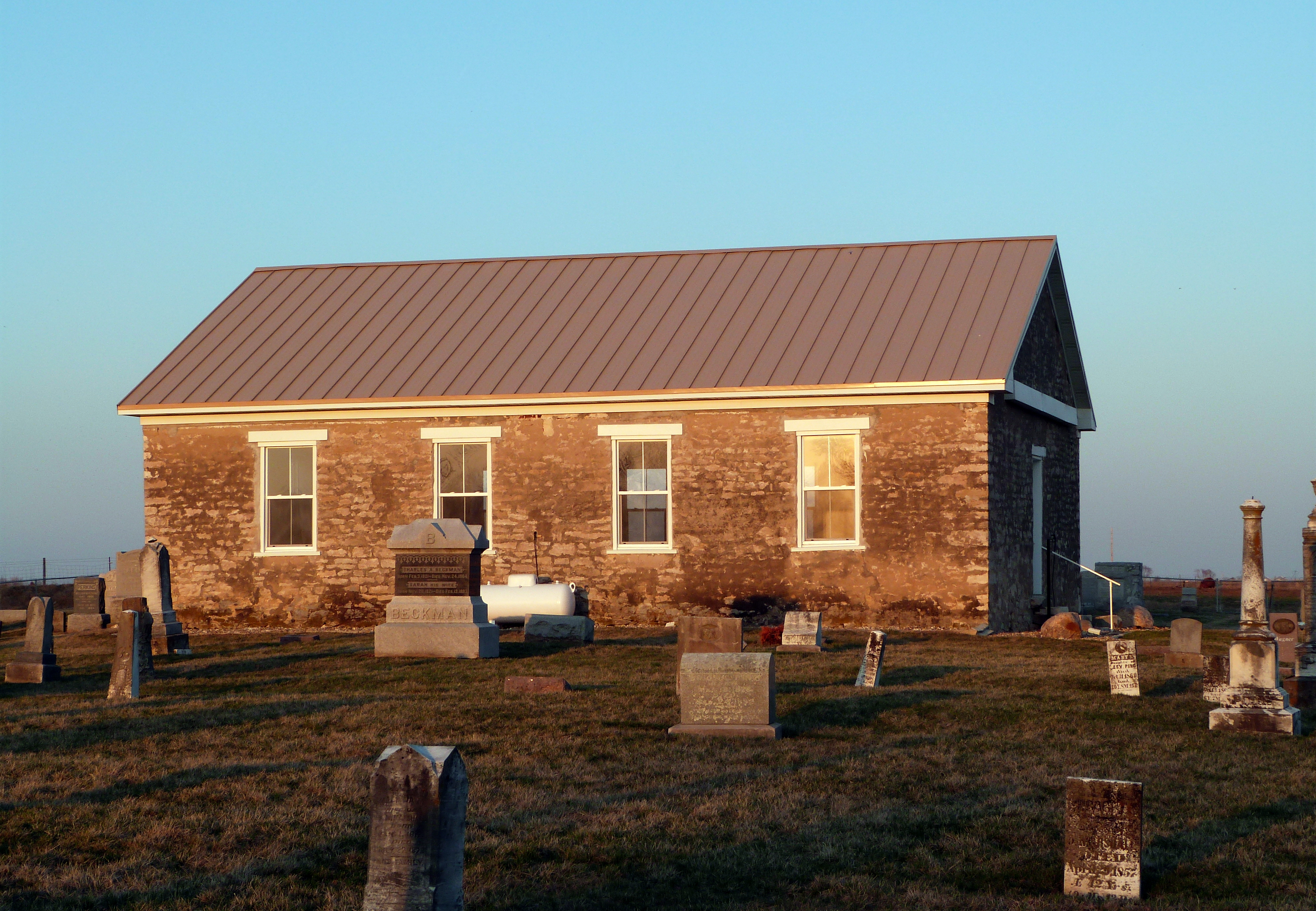 The historic Baptist Church (built 1847), located at the intersection of 140th Avenue and 190th Street near Sperry, Iowa, United States, is listed on the US National Register of Historic Places.